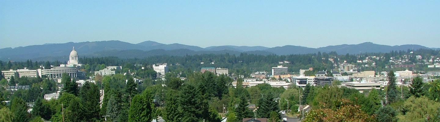 Olympia, Washington and the Black Hills from Madison Scenic Park